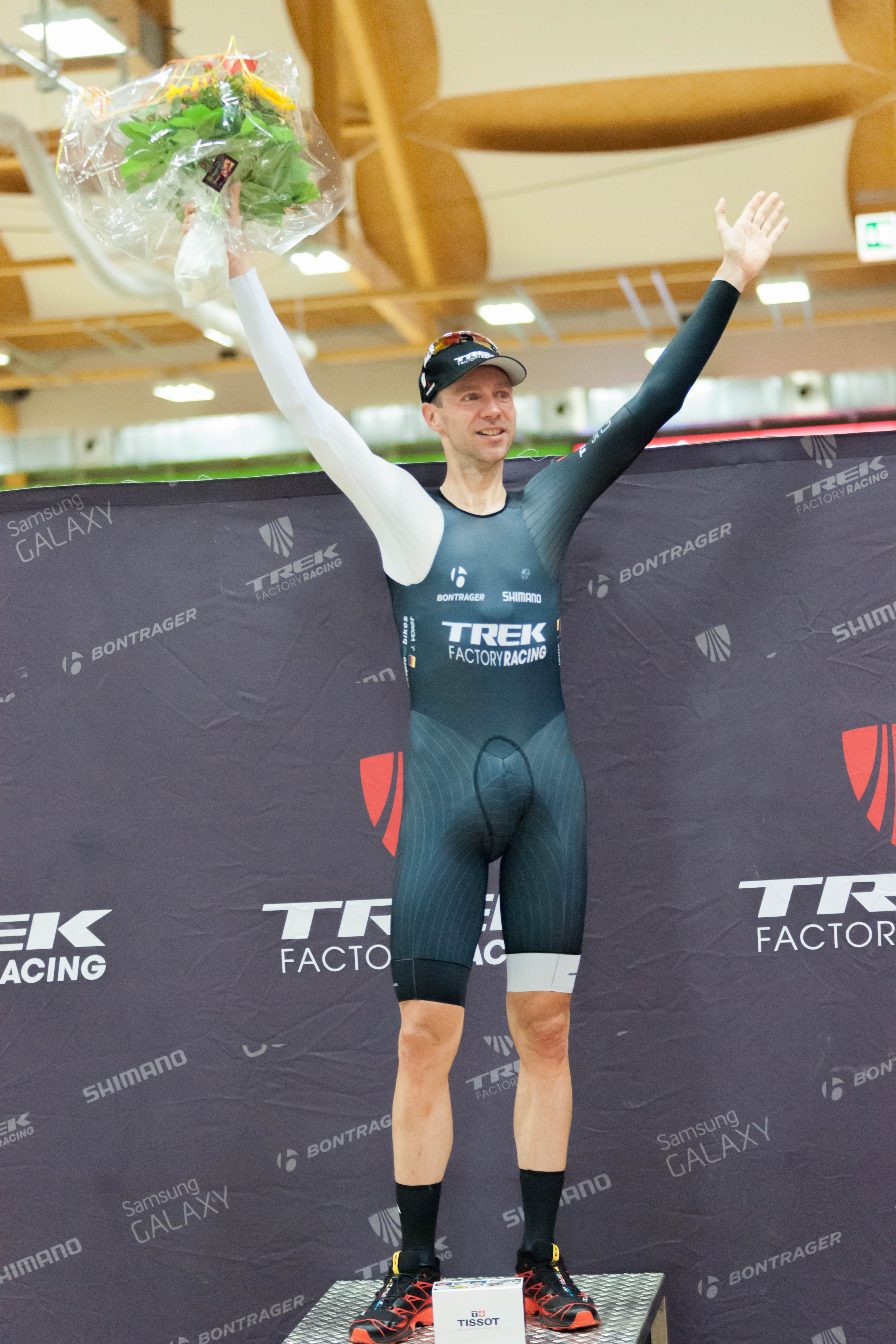 Jens Voigt - Hour Record - Podium